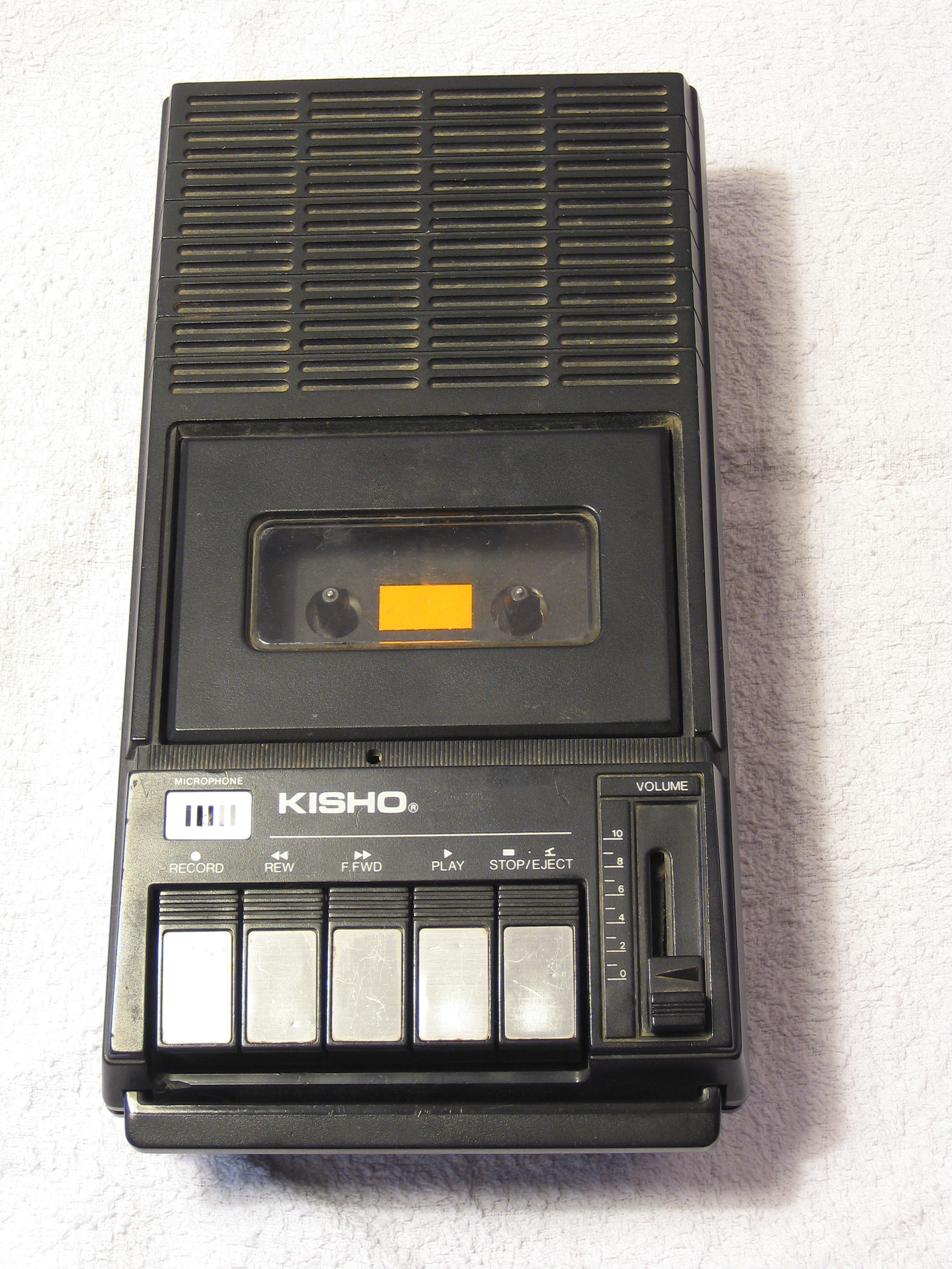 Kisho KC 1171 Portable Cassette Recorder (Top View)